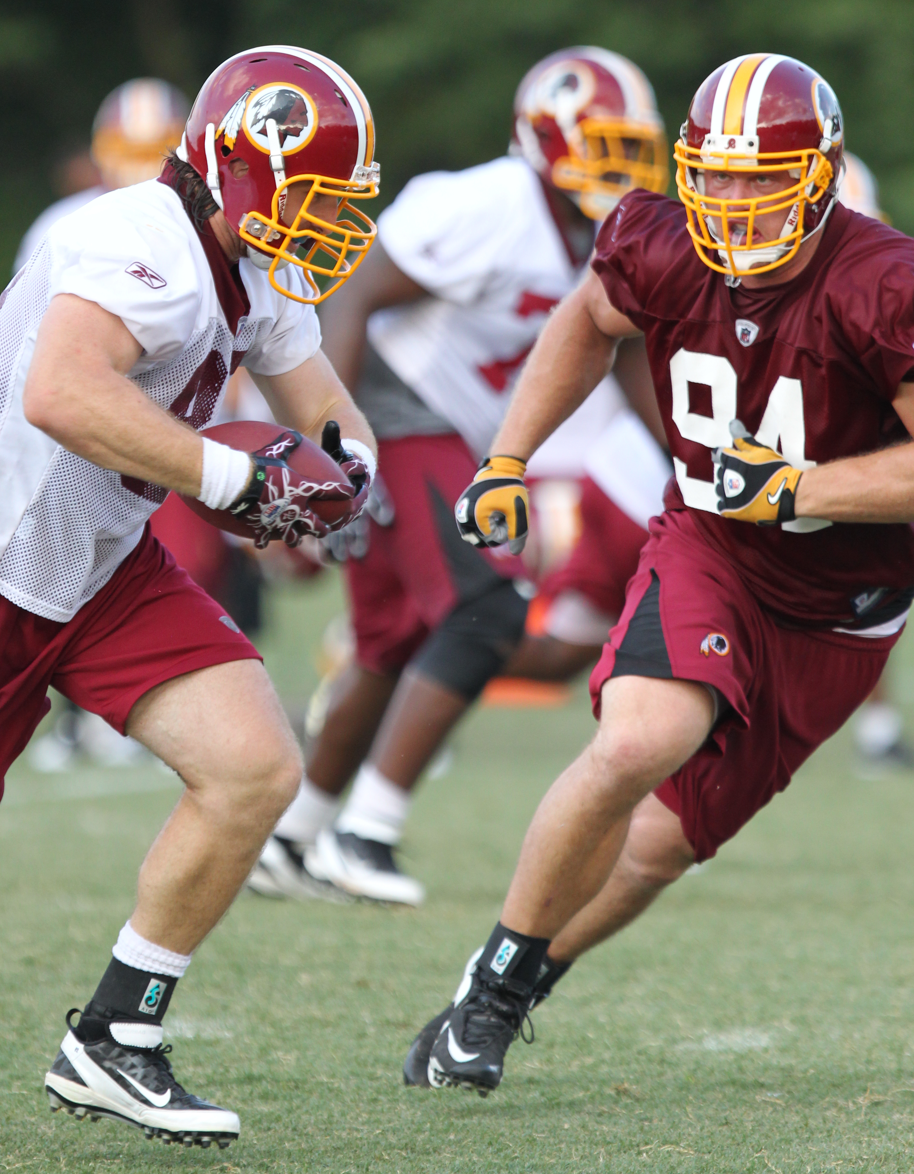 Washington Redskins Training Camp August 4, 2011